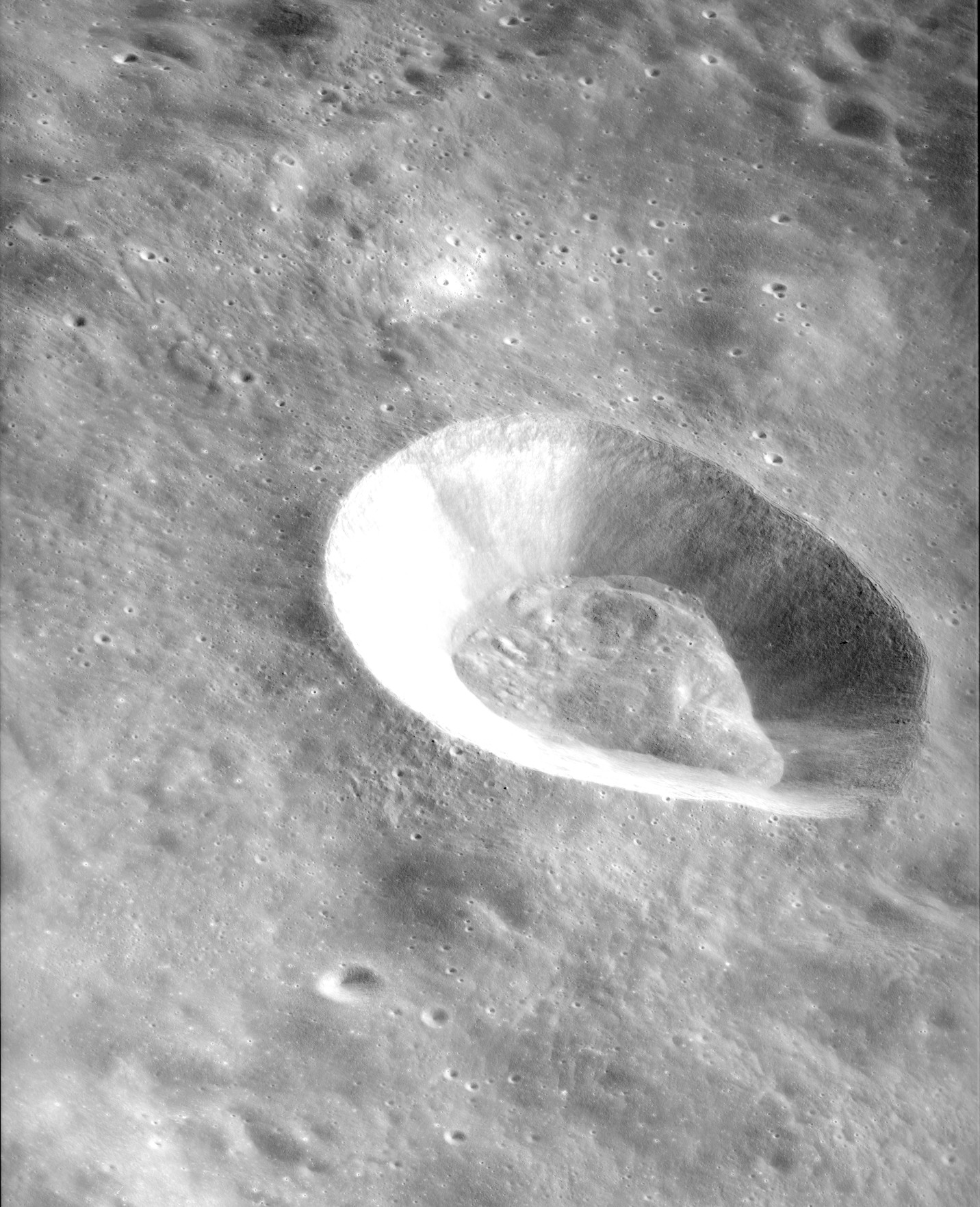 Oblique view of Hecataeus L crater (near Hecataeus), on the moon.